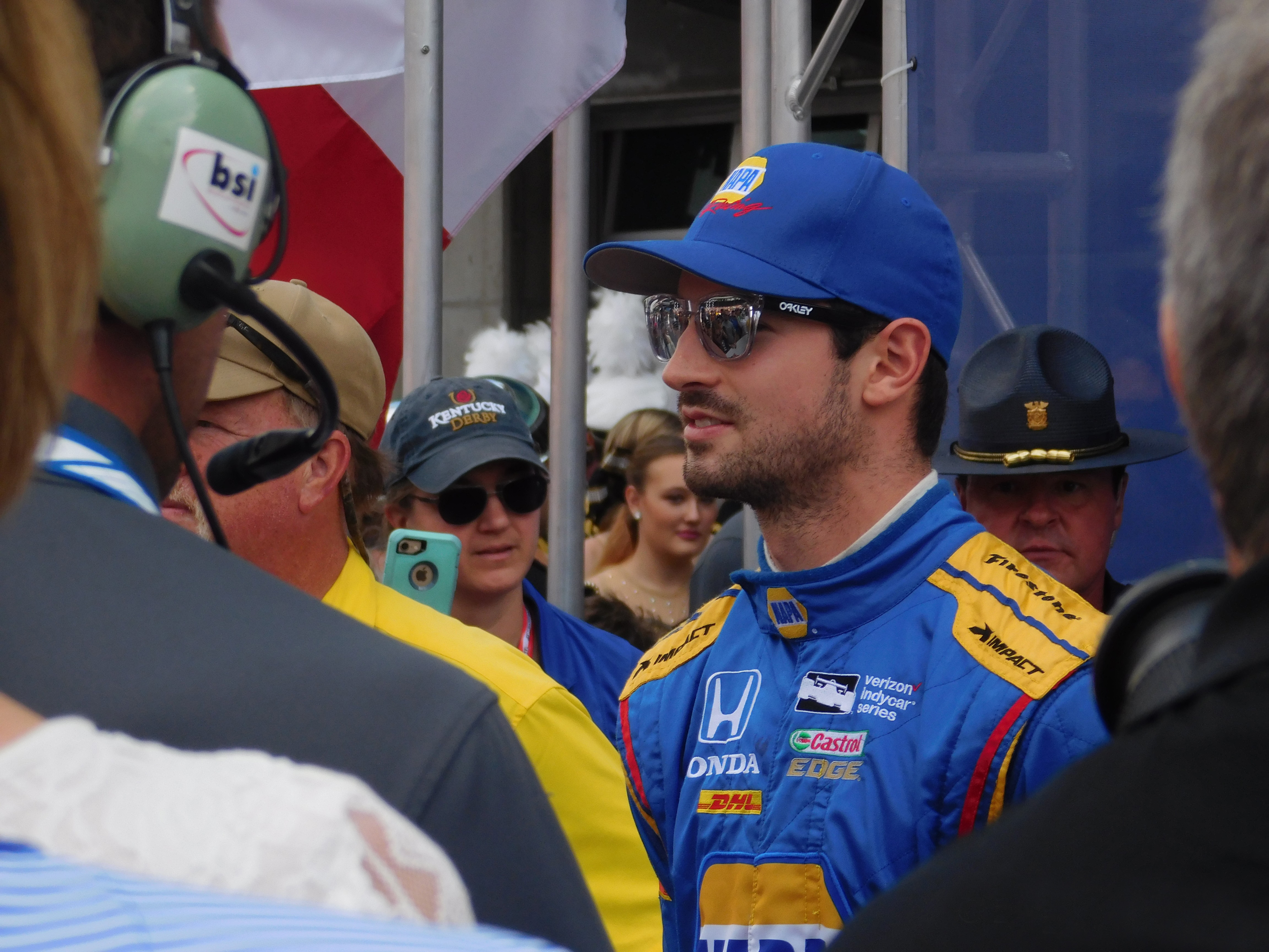 alexander rossi